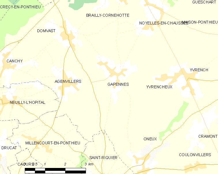 Map of French municipality Gapennes